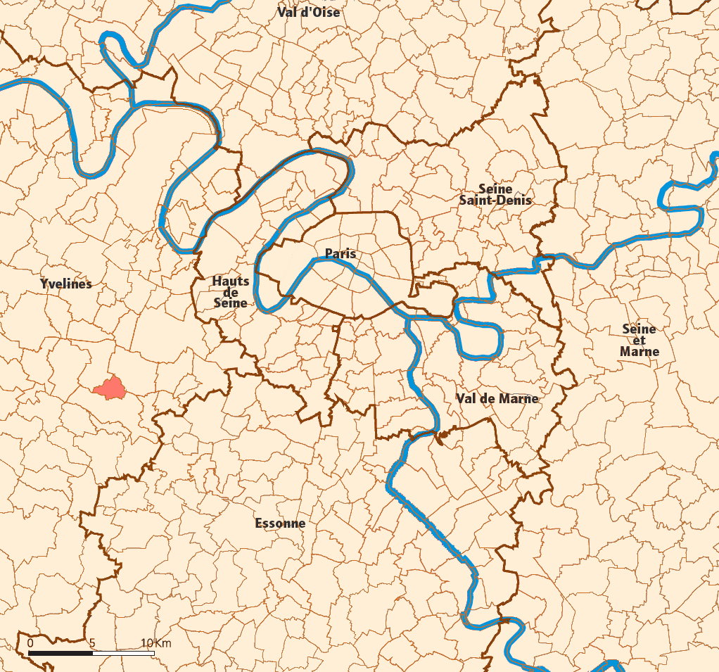 Created map myself.